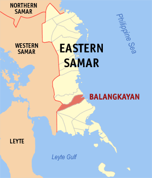 Map of Eastern Samar showing the location of Balangkayan